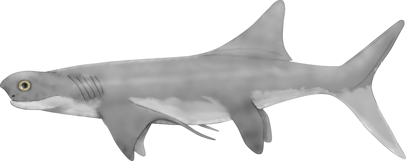 Life restoration of the prehistoric cartilaginous fish Cobelodus. References: Compagno, Leonard J. V. (2004). "Alternative life-history styles of cartilaginous fishes in time and space". Environmental Biology of Fishes 38: 33-75. (Fig. 12)